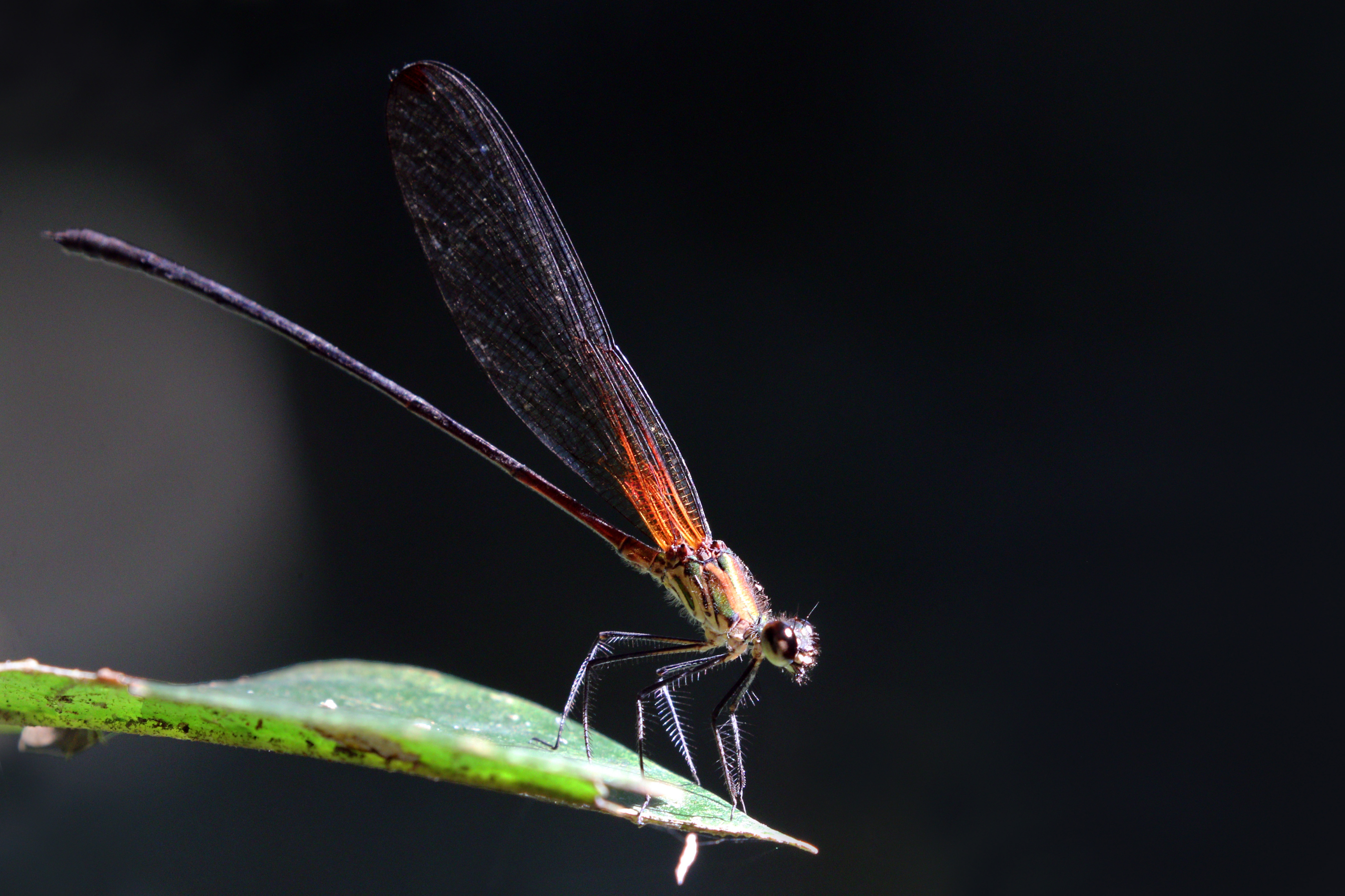 Rubyspot damselfly (Hetaerina laesa) male, Cristalino River, Southern Amazon, Brazil